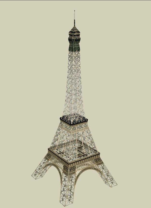 Screenshot of the eiffel tower created by myself in order to illustrate the page about google sketchup